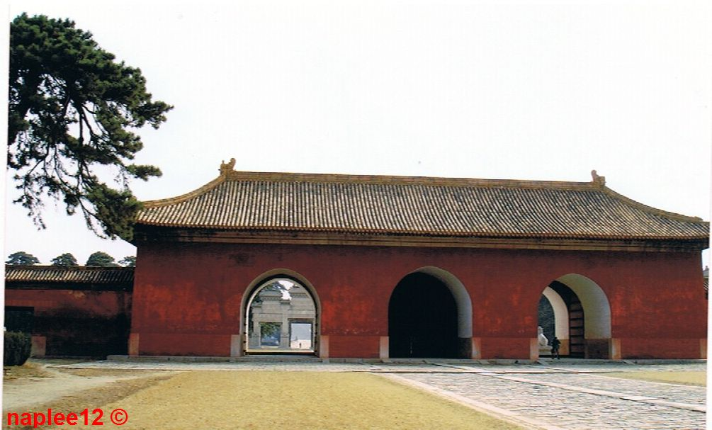 western Qing Tombs red gate